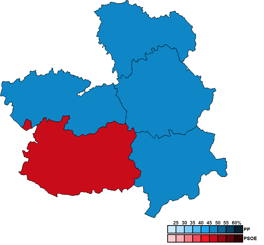 Provincial results for the 2011 Castilian-Manchegan regional election.